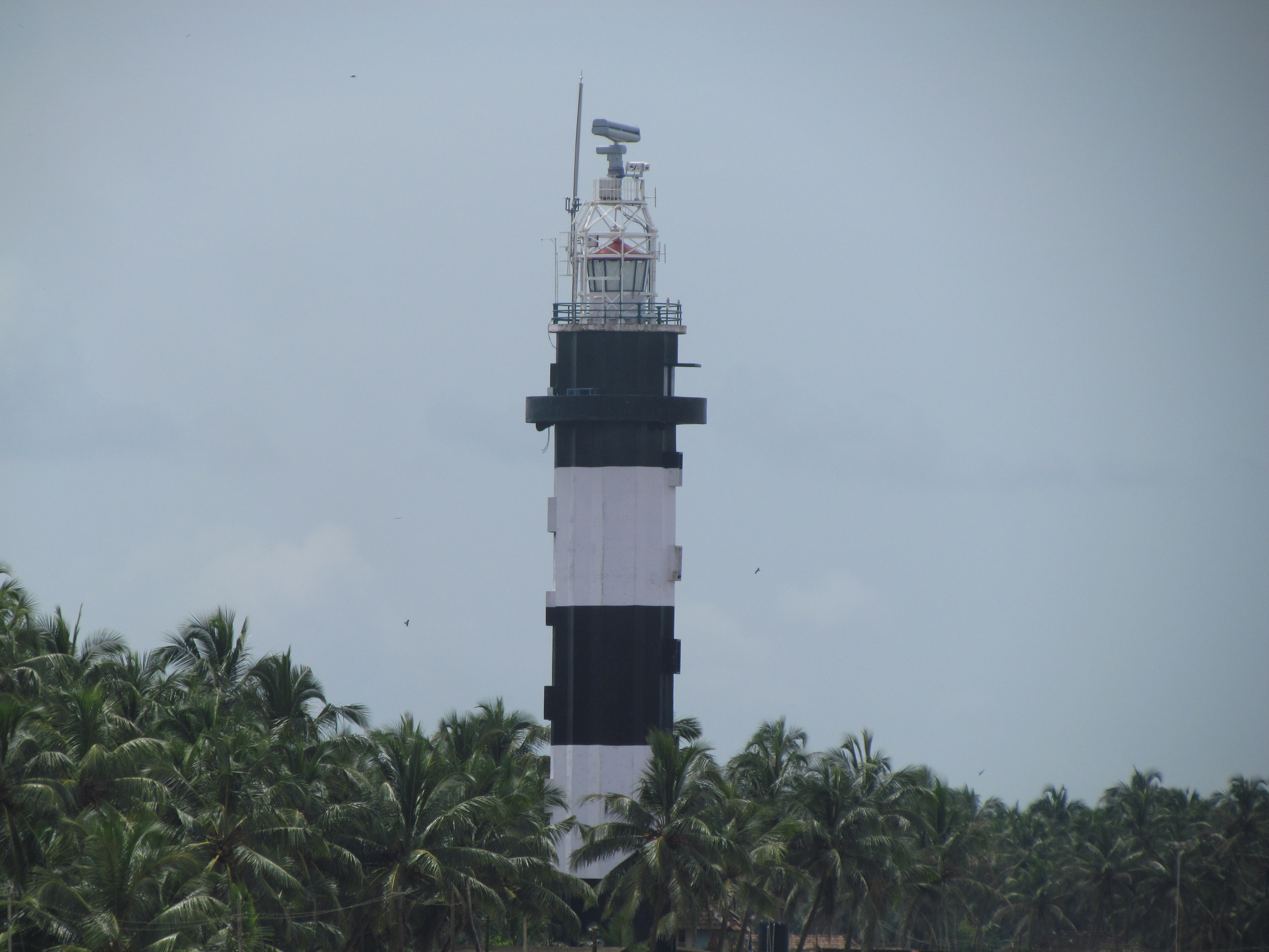 Ponnani Light house